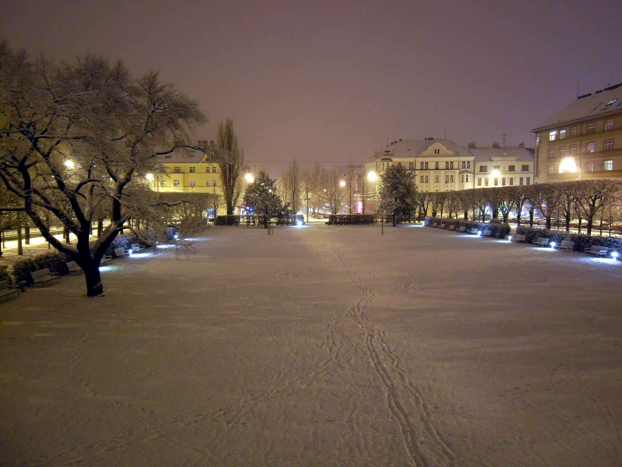 Brno - Slavic square